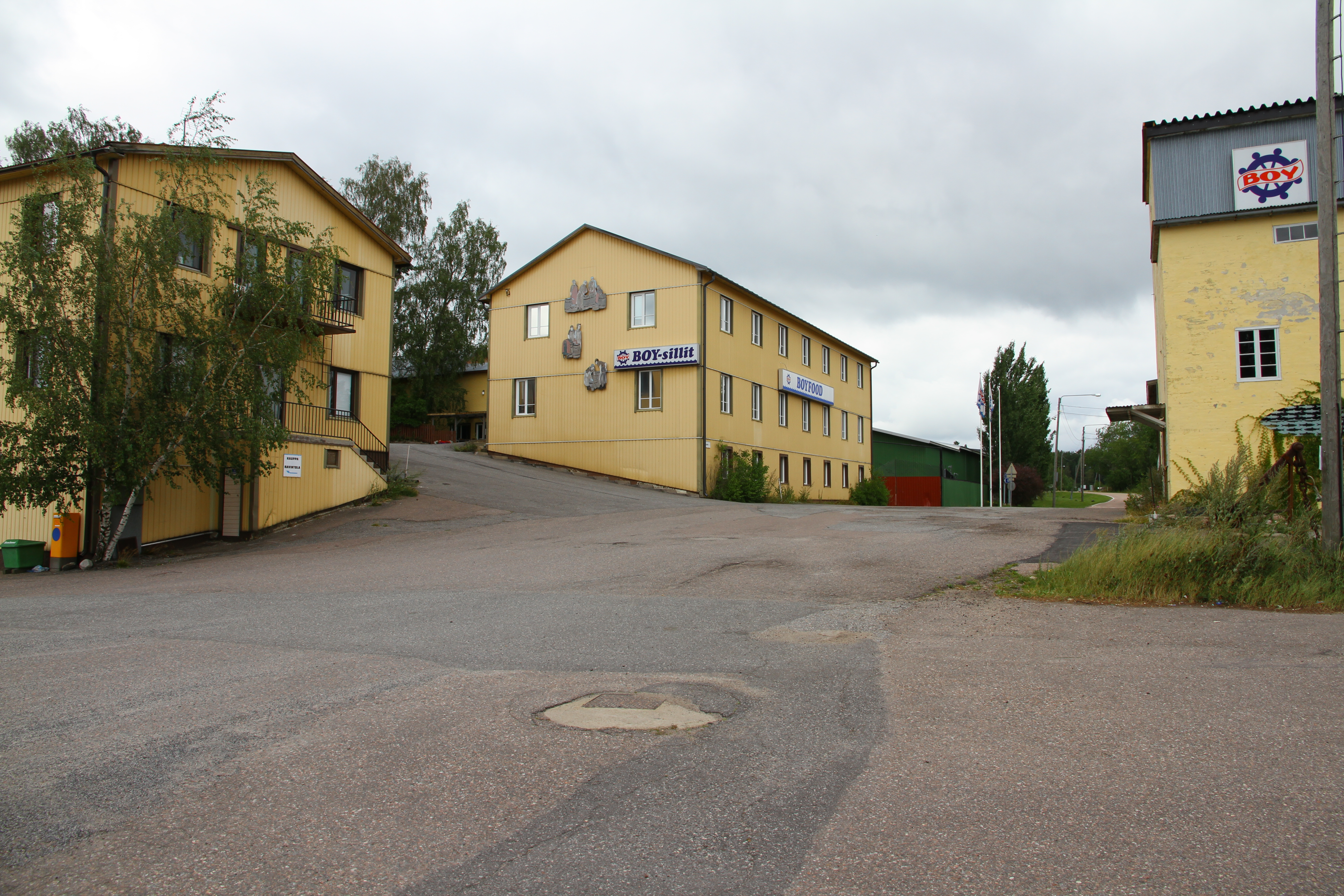 Röölä Naantali, Finland.